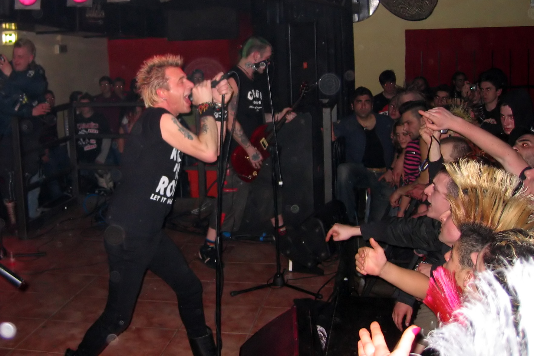 GBH live in 2006